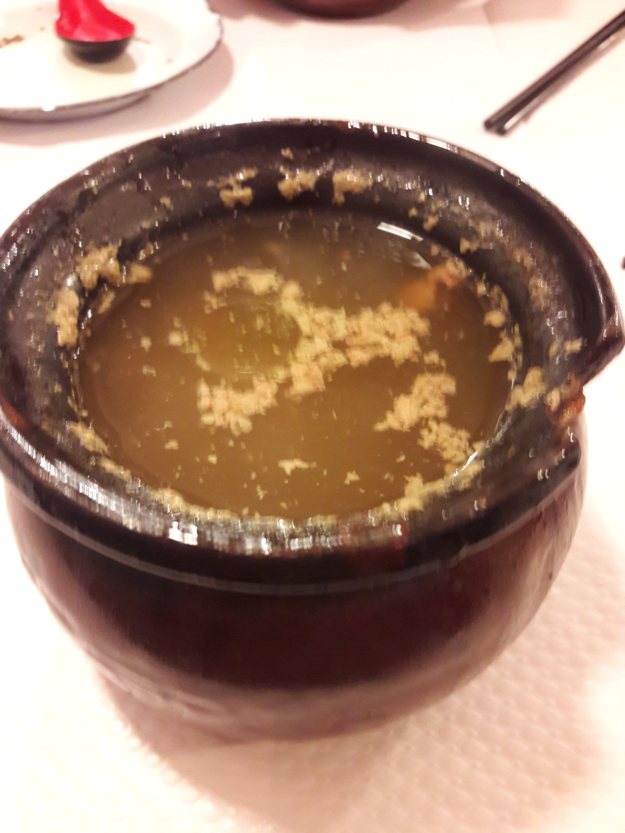 Bowl of soup of silkie (black chicken) cooked in a waguan (瓦罐), in a Nanchang cuisine restaurant at Paris 11th district